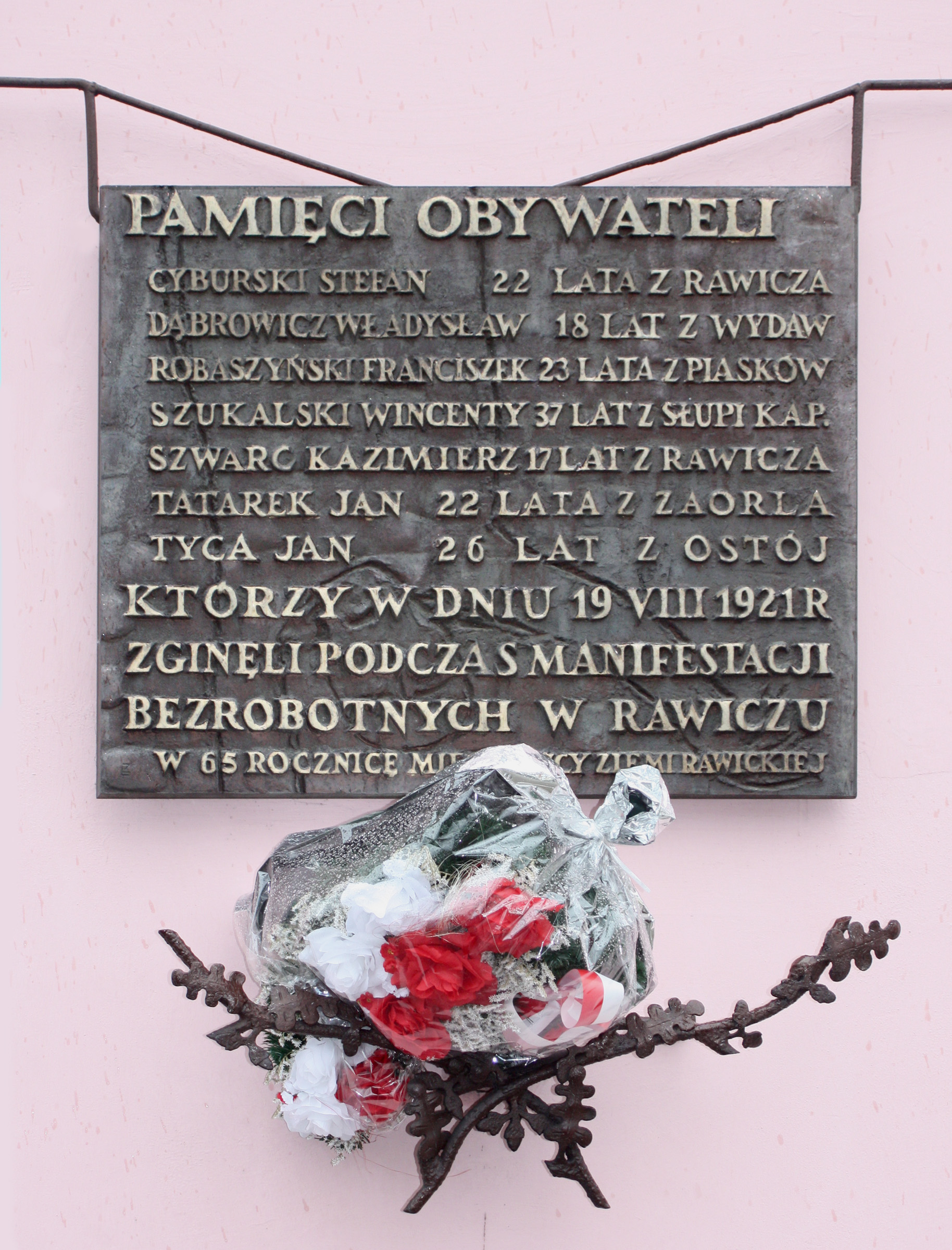 Memorial plate for victims of a 1921 unemployed strike od the Rawicz town hall